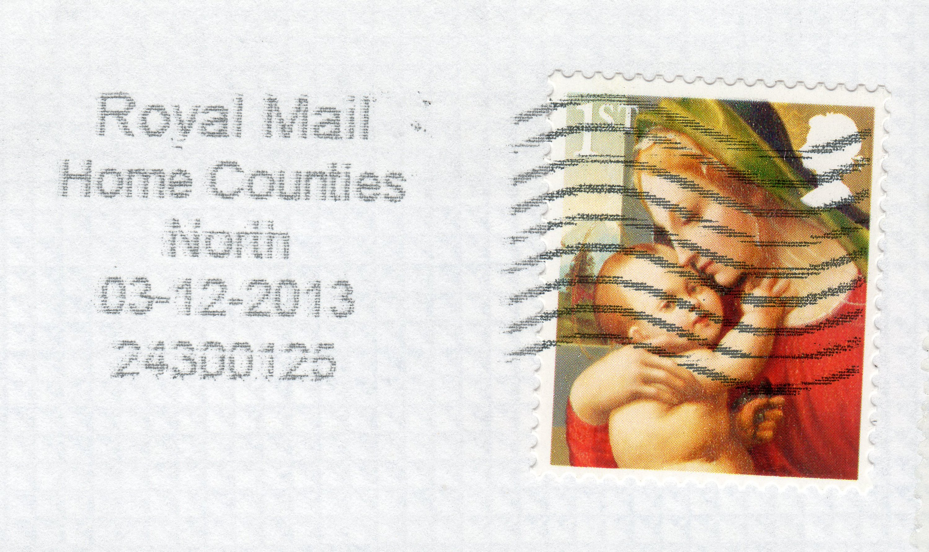 Royal Mail Home Counties North postmark 2013 on a letter posted from the Luton, Bedfordshire area. Stamp is British 2013 Christmas stamp Madonna and Child (c.1520), Francesco Granacci.